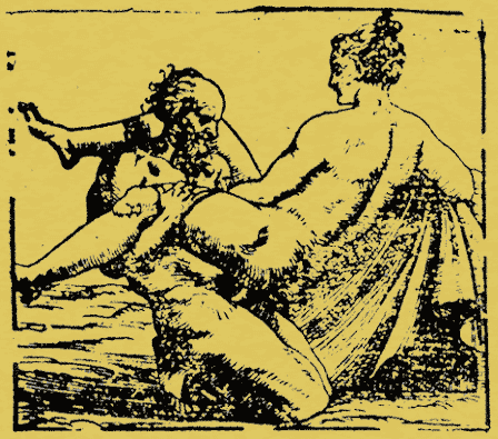 This 1527 [?] woodcut copies a Marcantonio Raimondi engraving of a drawing of Giulio Romano.